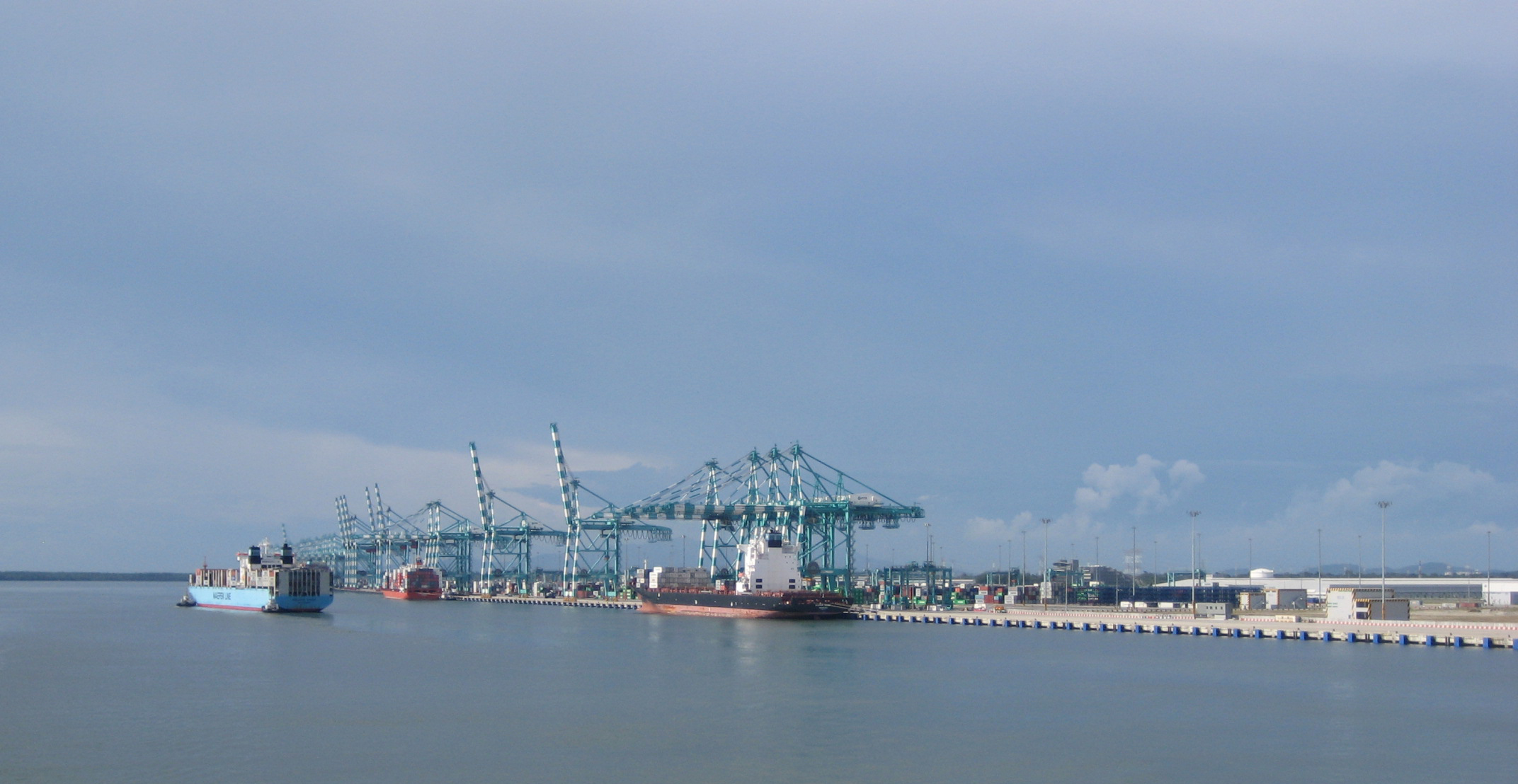 Source: Xtrememachineuk (talk) 23:19, 25 November 2007 (UTC) The port of Tanjung Pelepas, Malaysia.